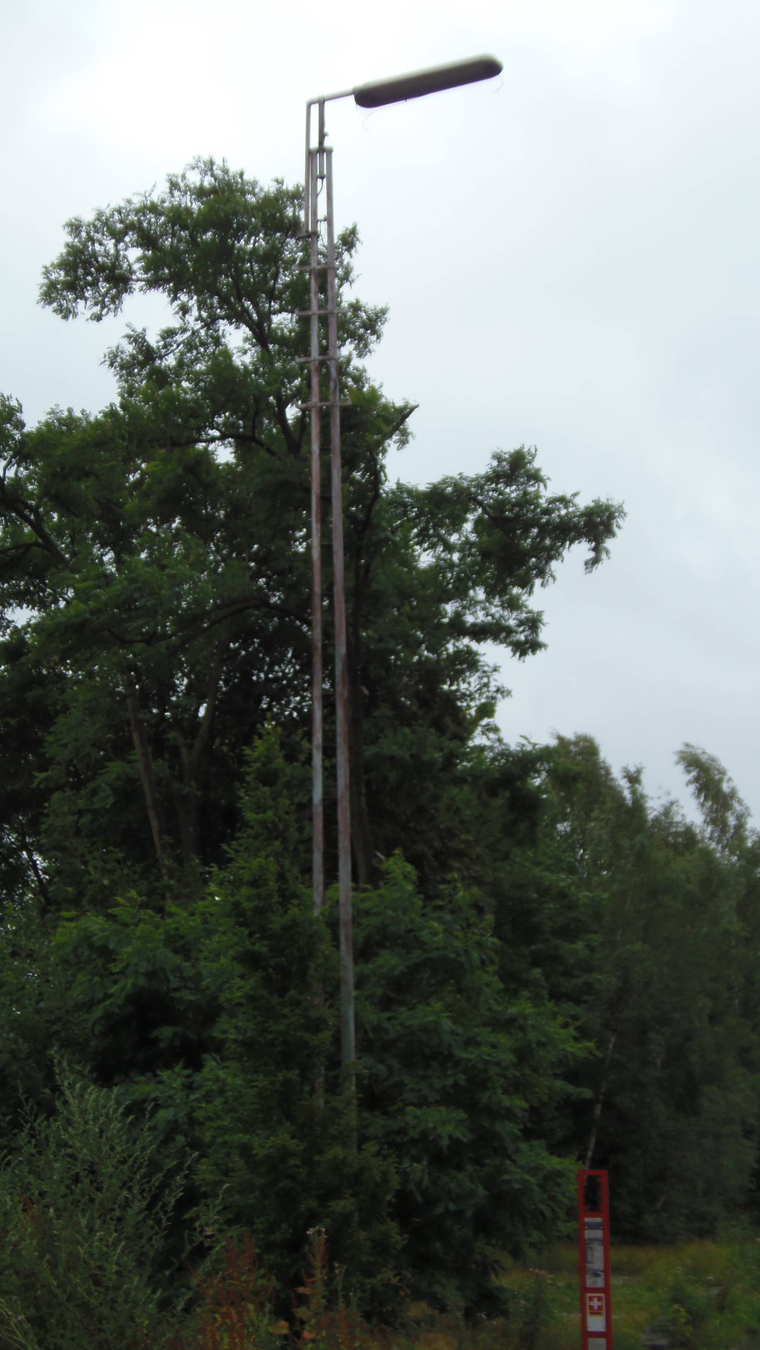 former central station of Velbert